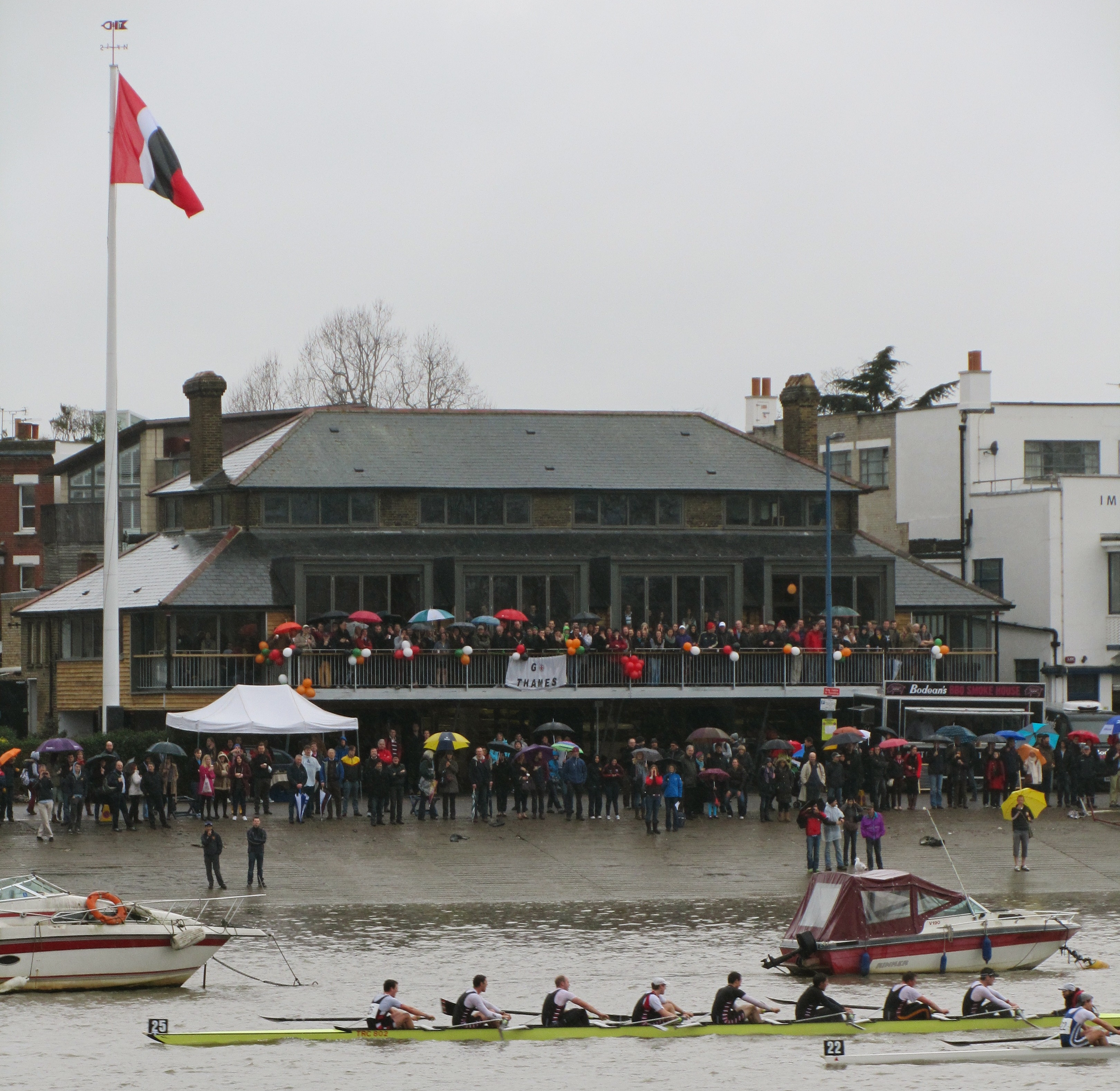 Thames Rowing Club's clubhouse (Putney Embankment, London, UK) during the Head of the RIver Race 2012. In the foreground is the Thames RC second eight racing.